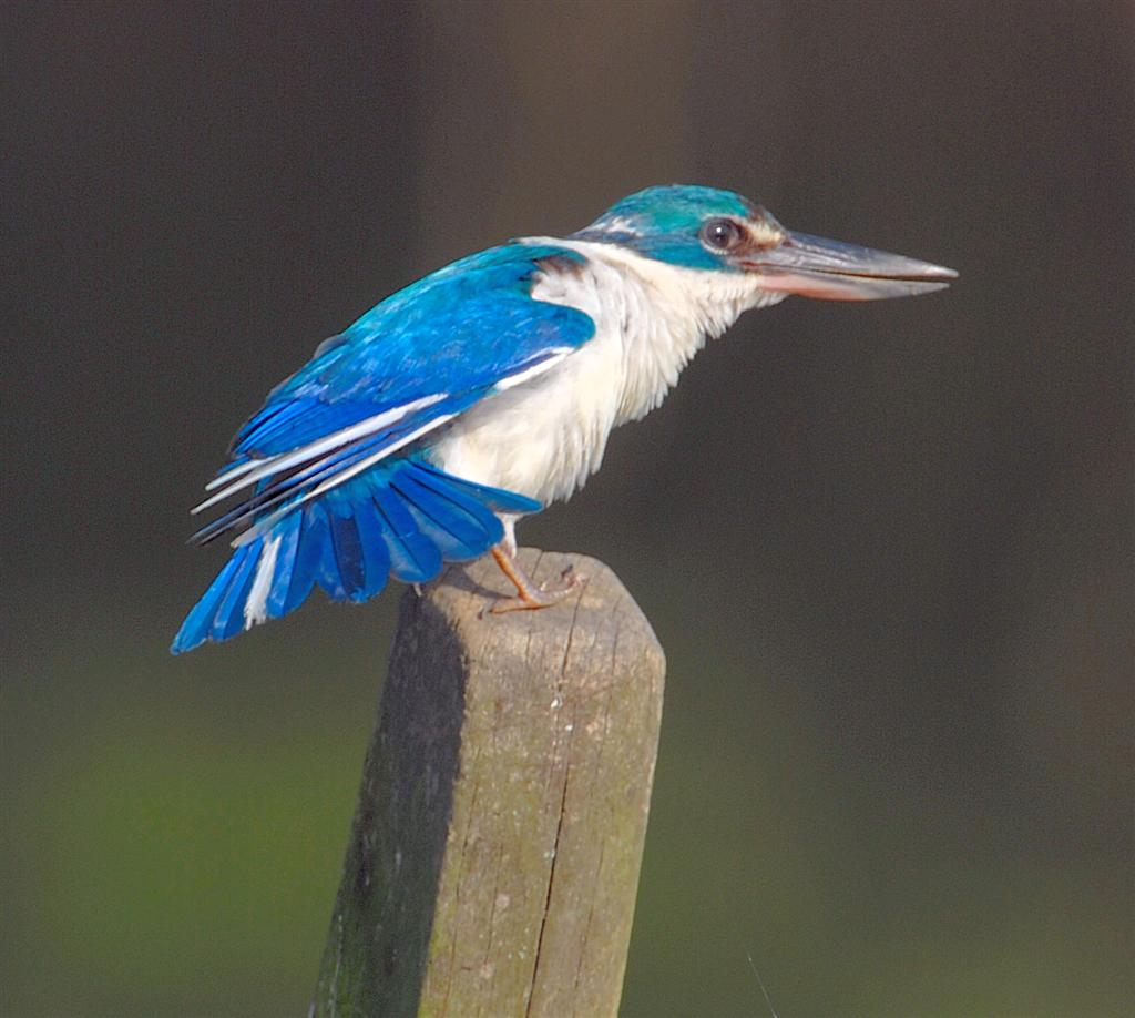 Collared Kingfisher (Todirhamphus chloris)